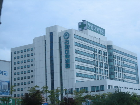 Used with permission of the creator (Xanga site of creator and source of images)